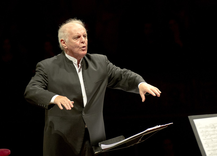 Daniel Barenboim performing at the Colon teather